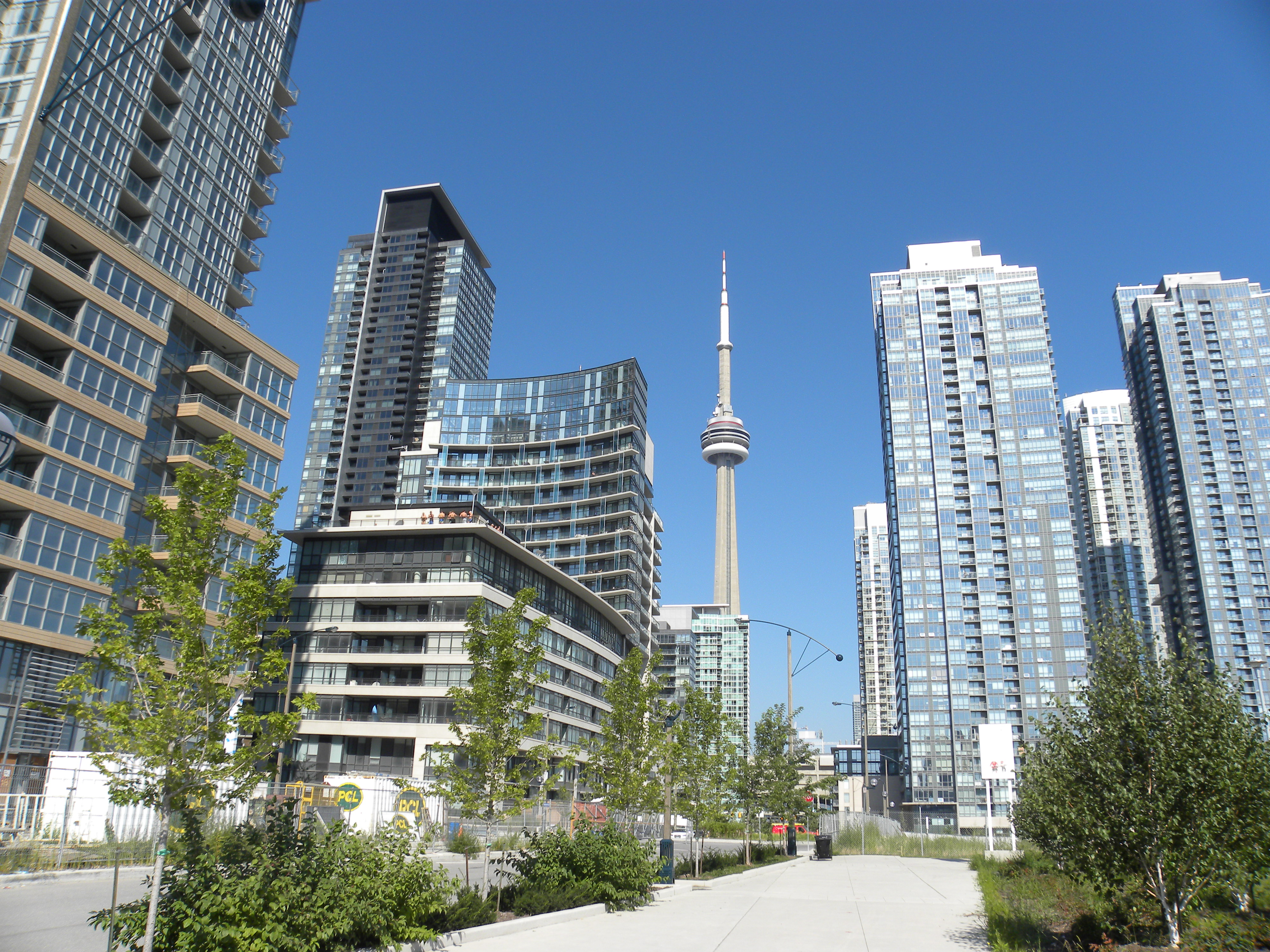 The CN Tower through the CityPlace skyline.